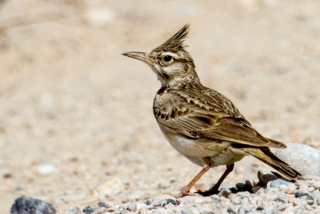 Crested Lark